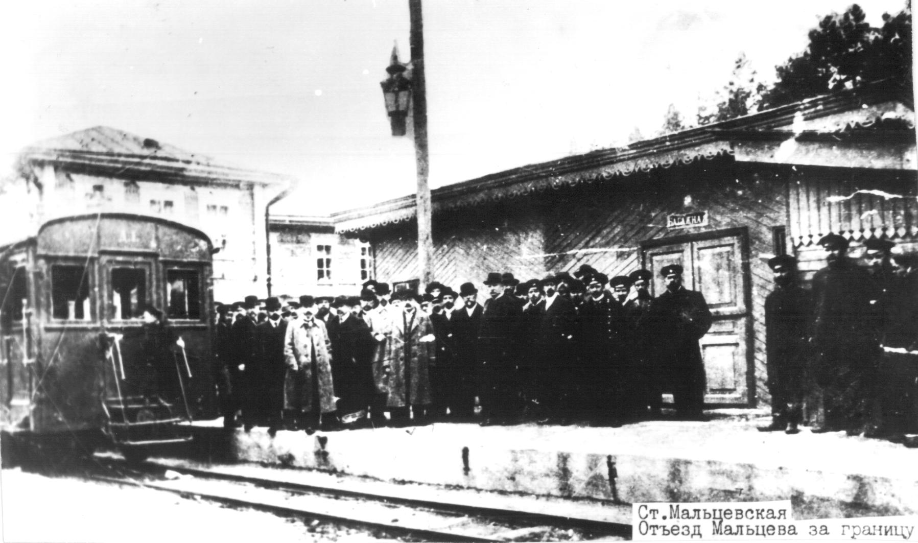 Maltsovskaya station near Bryansk. Maltsov going abroad.